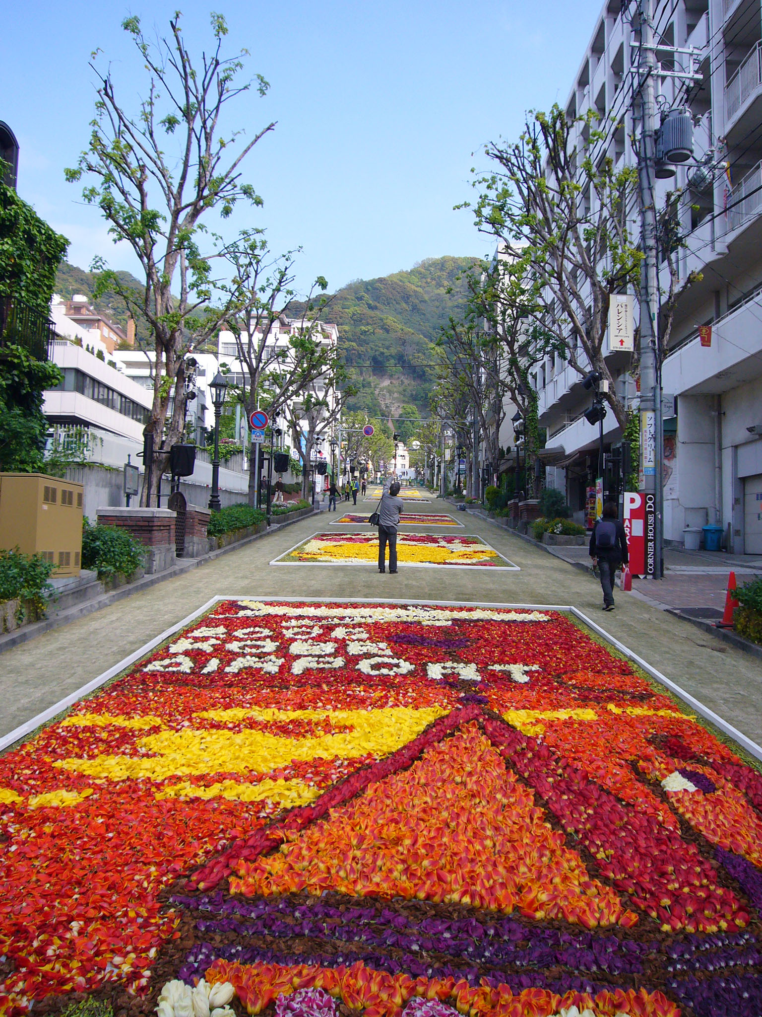 Infiorata Kobe 2006 at Kitanozaka in Kobe, Hyogo prefecture, Japan